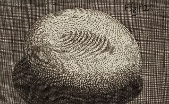 Schem. XXV - 2. Of the Eggs of Silk-worms, and other Insects.